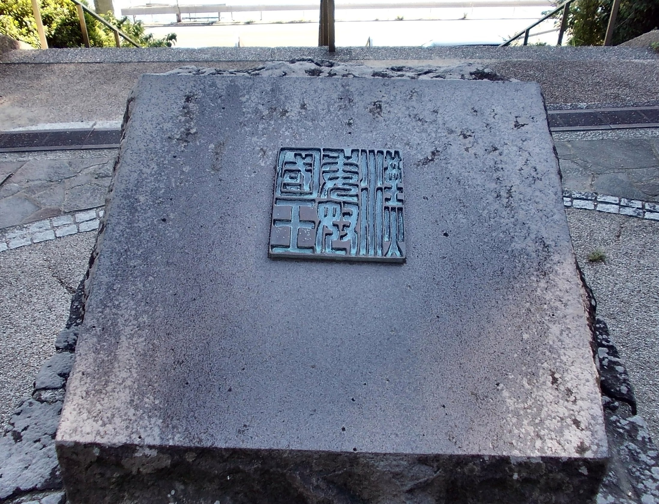 The golden block seal "kan no wa no na no koku-ō"(King of the Japanese country of Na of Han) at Kin-in Park in Shikanoshima Island, Higashi-ku, Fukuoka, Japan